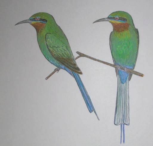 Blue tailed Bee-eater, Merops philippinus Watercolor by L. Shyamal